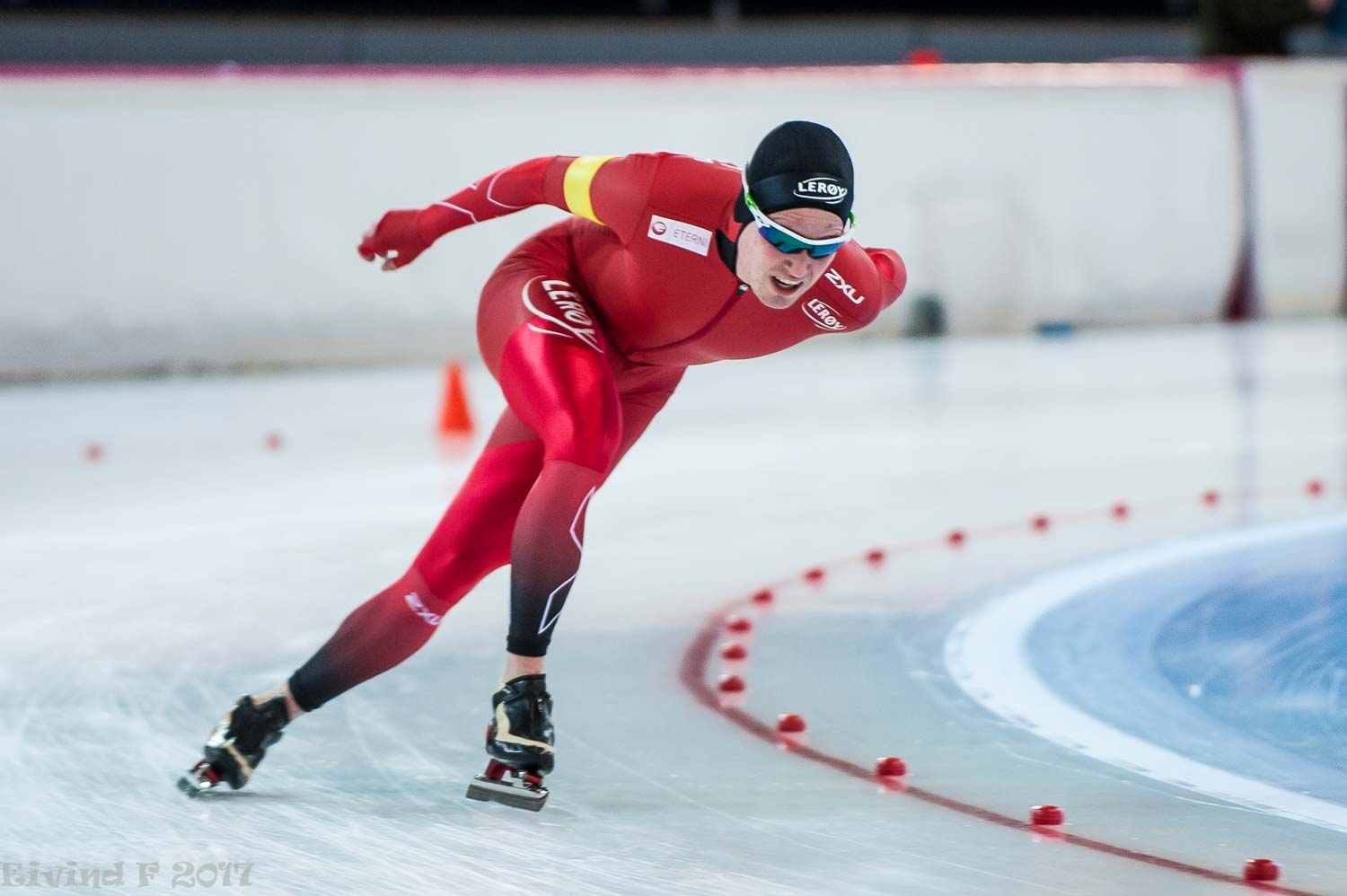 Norwegian speedskater